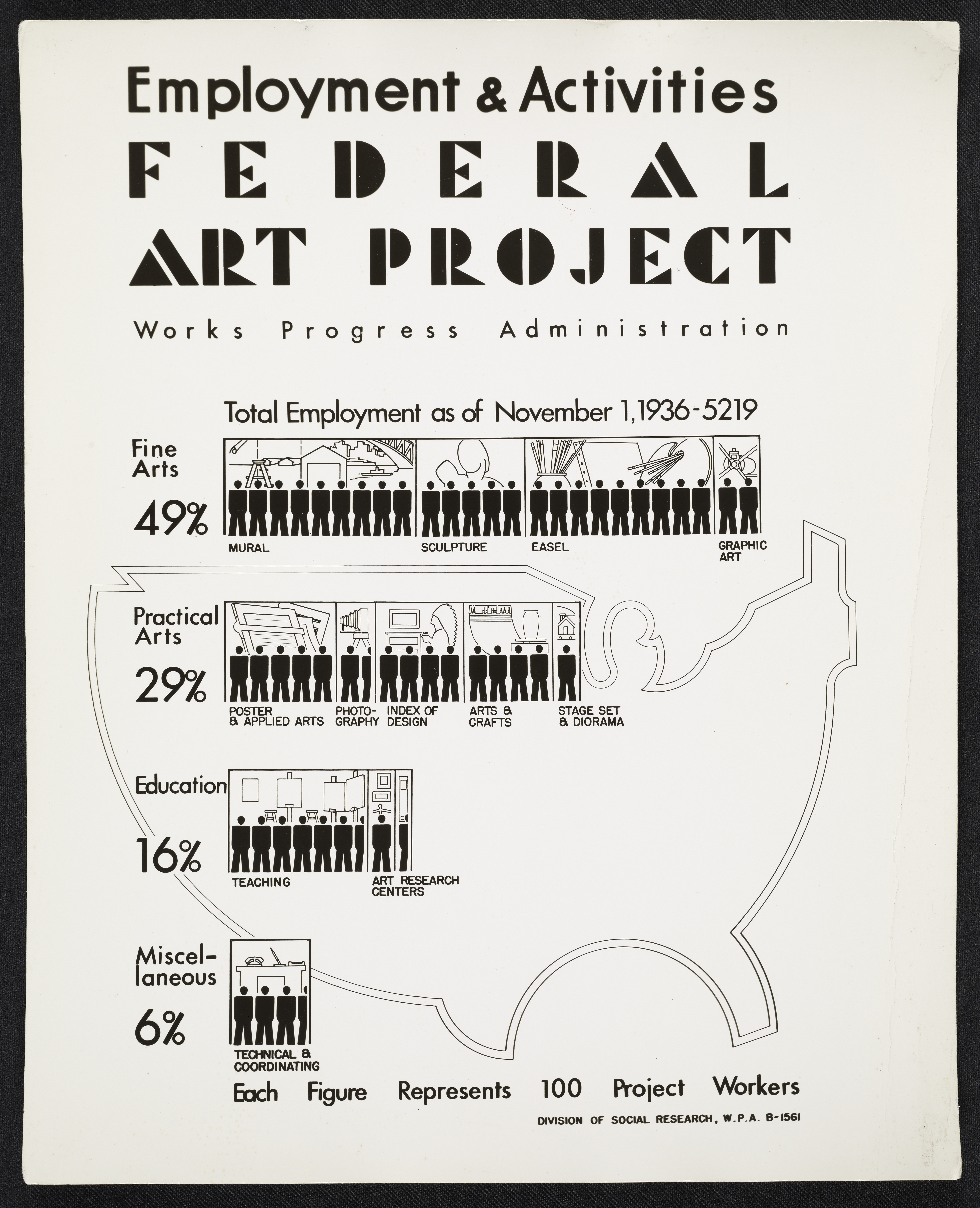 (null)